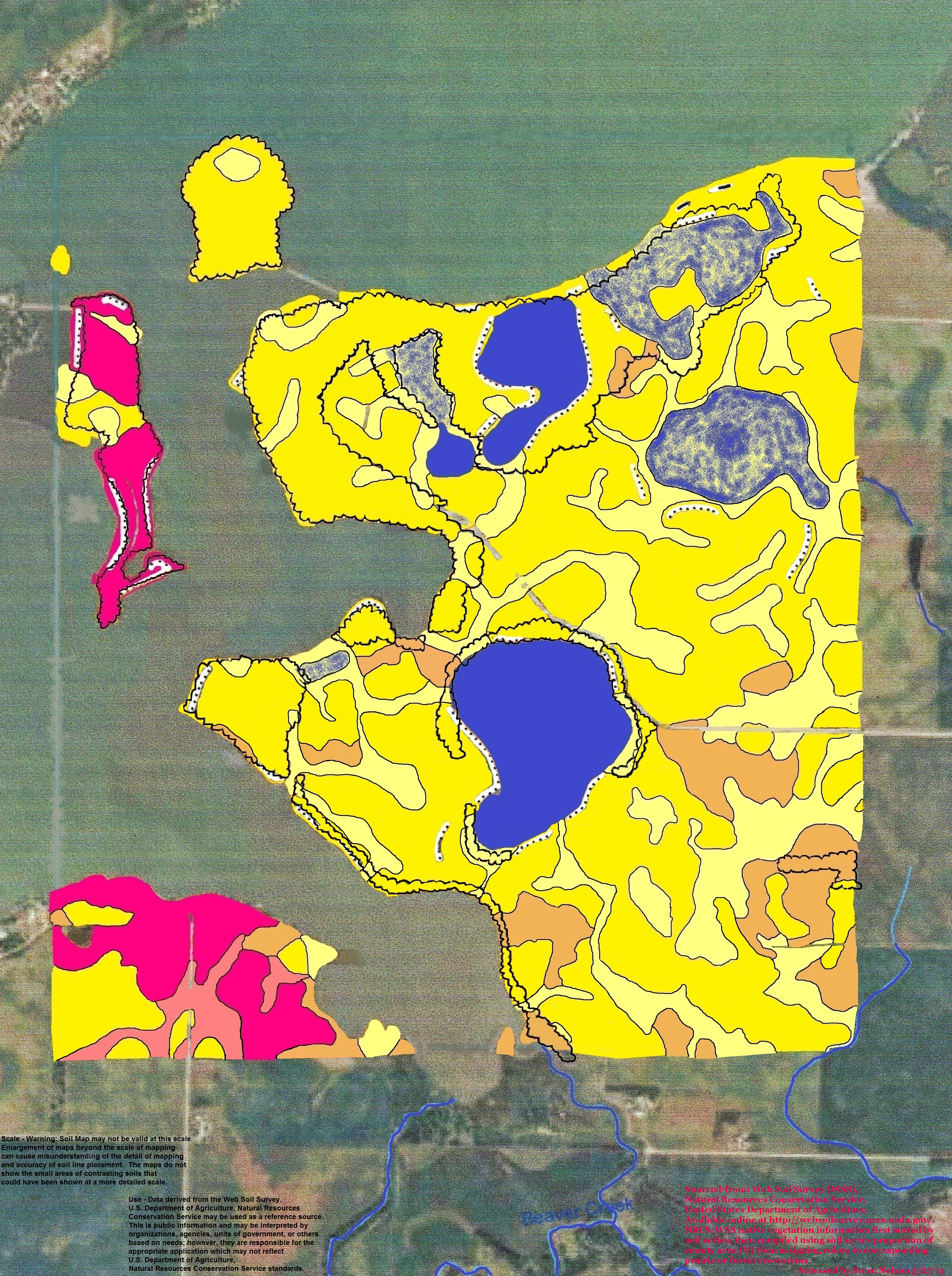 Map shows native vegetation, based on soils, of Lake Shetek State Park area in Murray County Minnesota. Sourced-from: Web Soil Survey (WSS), Natural Resources Conservation Service, United States Department of Agriculture. Available at NRCS/WSS native vegetation information first sorted by soil series, then compiled using soil series proportion of county area (%) then assigning colors to corresponding prairie or forest ecosystems. Accessed by Steve Nelson 5/27/13